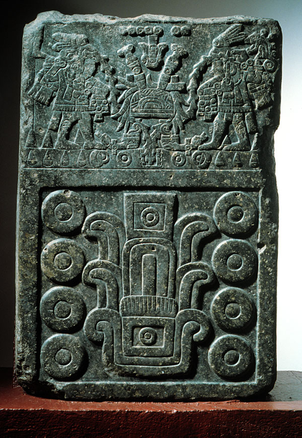 Greenstone plaque made in commemoration of the Temple of Huitzilopochtli at Tenochitlan.